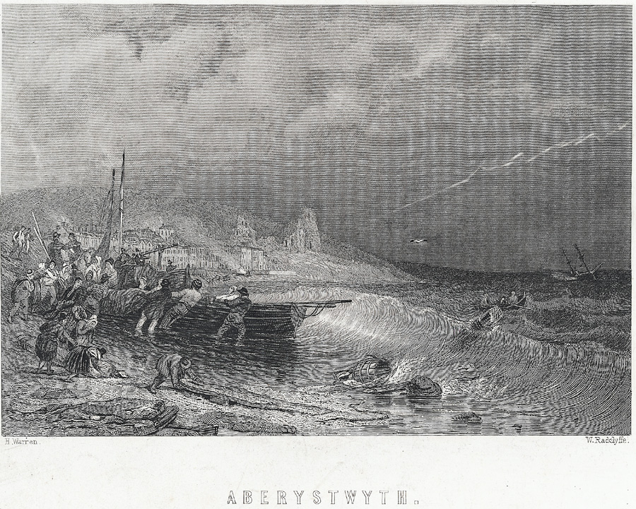 People pulling a boat ashore in a stormy sea, castle and houses in background.